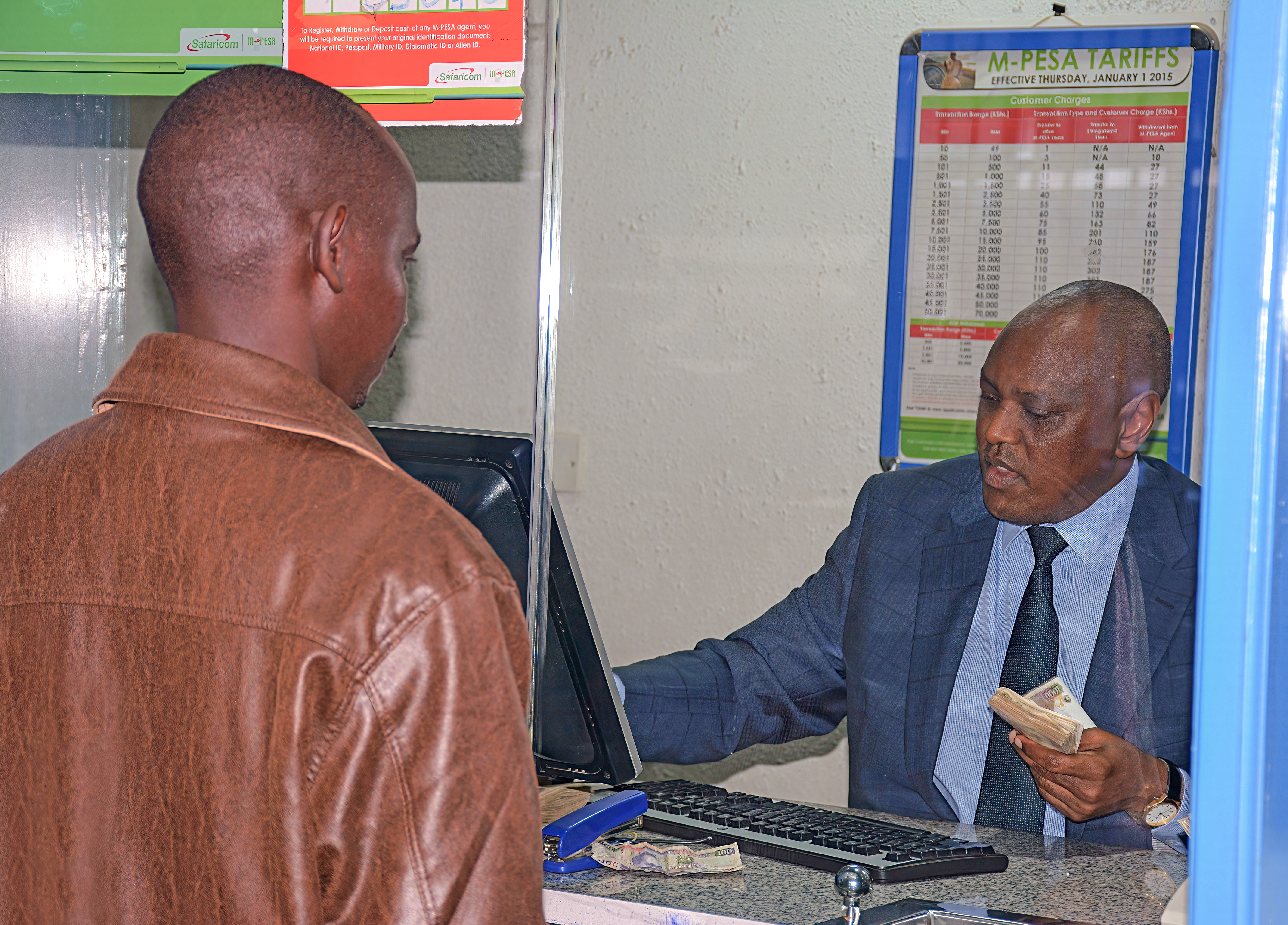 The Family Bank CEO serving customers at the customer week service. This is an image of "African people at work" from Kenya